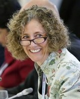 Victoria Mars, Corporate Ombudsman at Mars Incorporated, at the 27th session of the Foreign Investment Advisory Council in Russia.